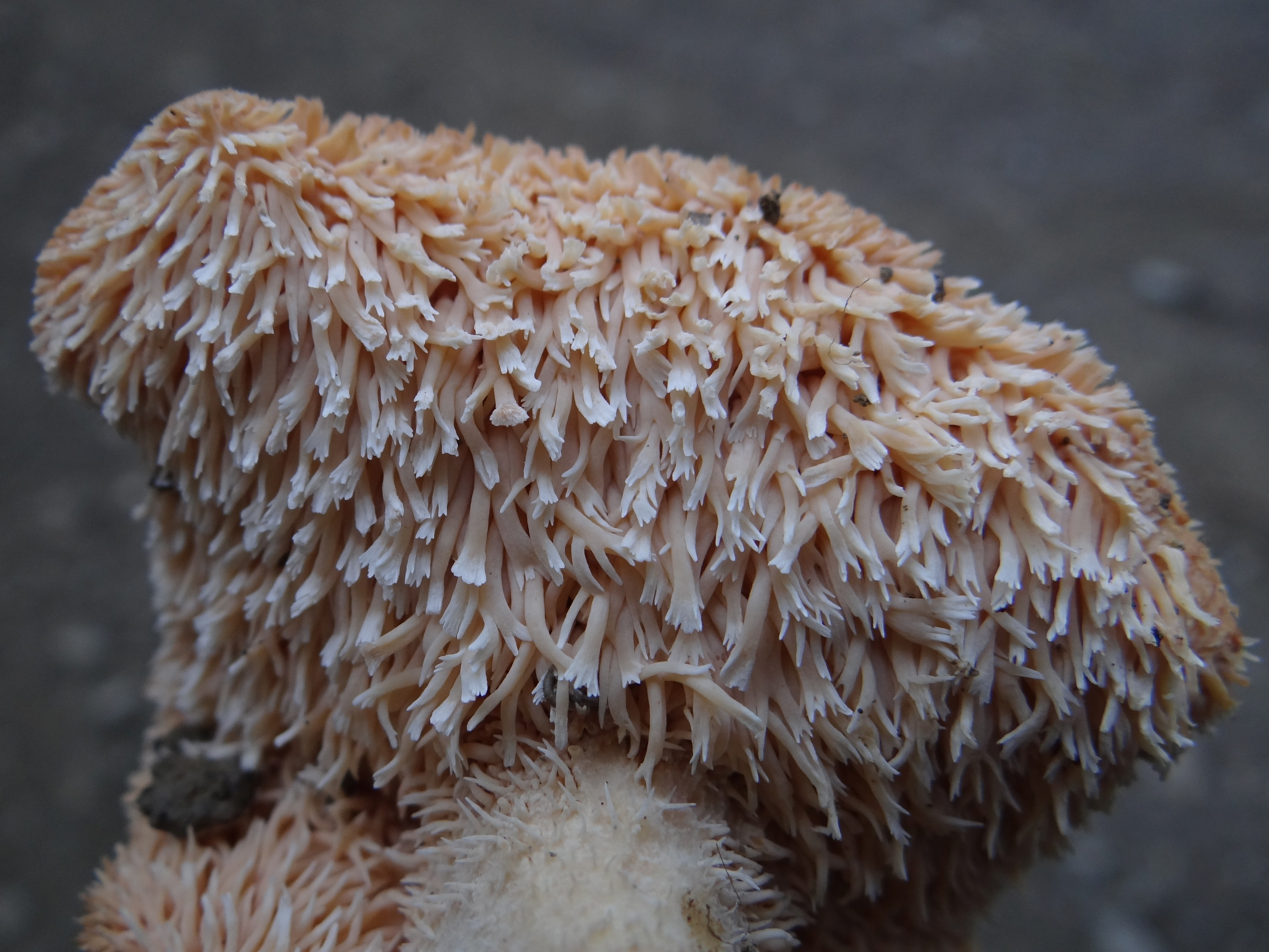 Hydnum rufescens (location: Poland, Gorce, Gorc)